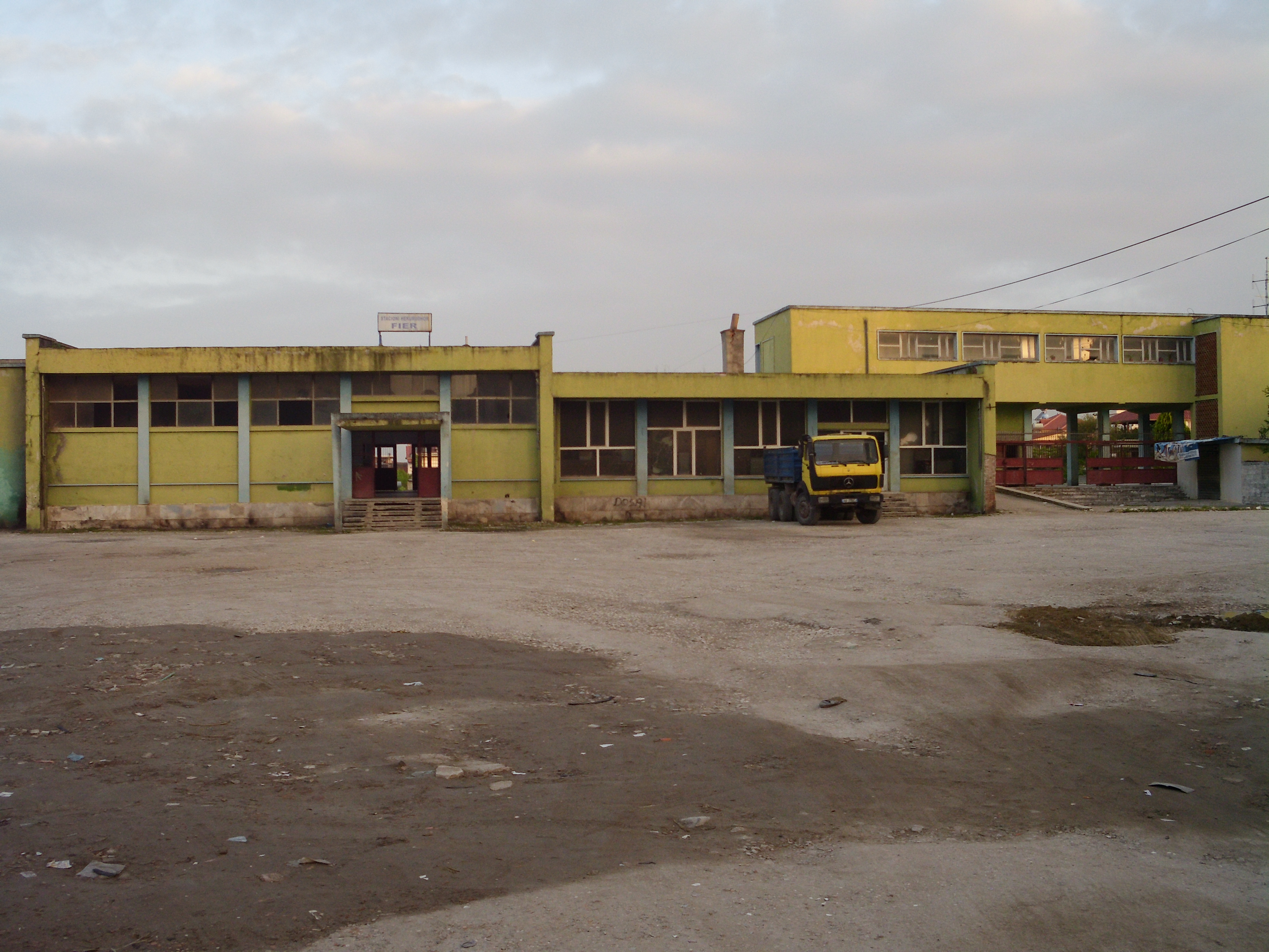 Train station building in Fier, Albania, as seen from the street.